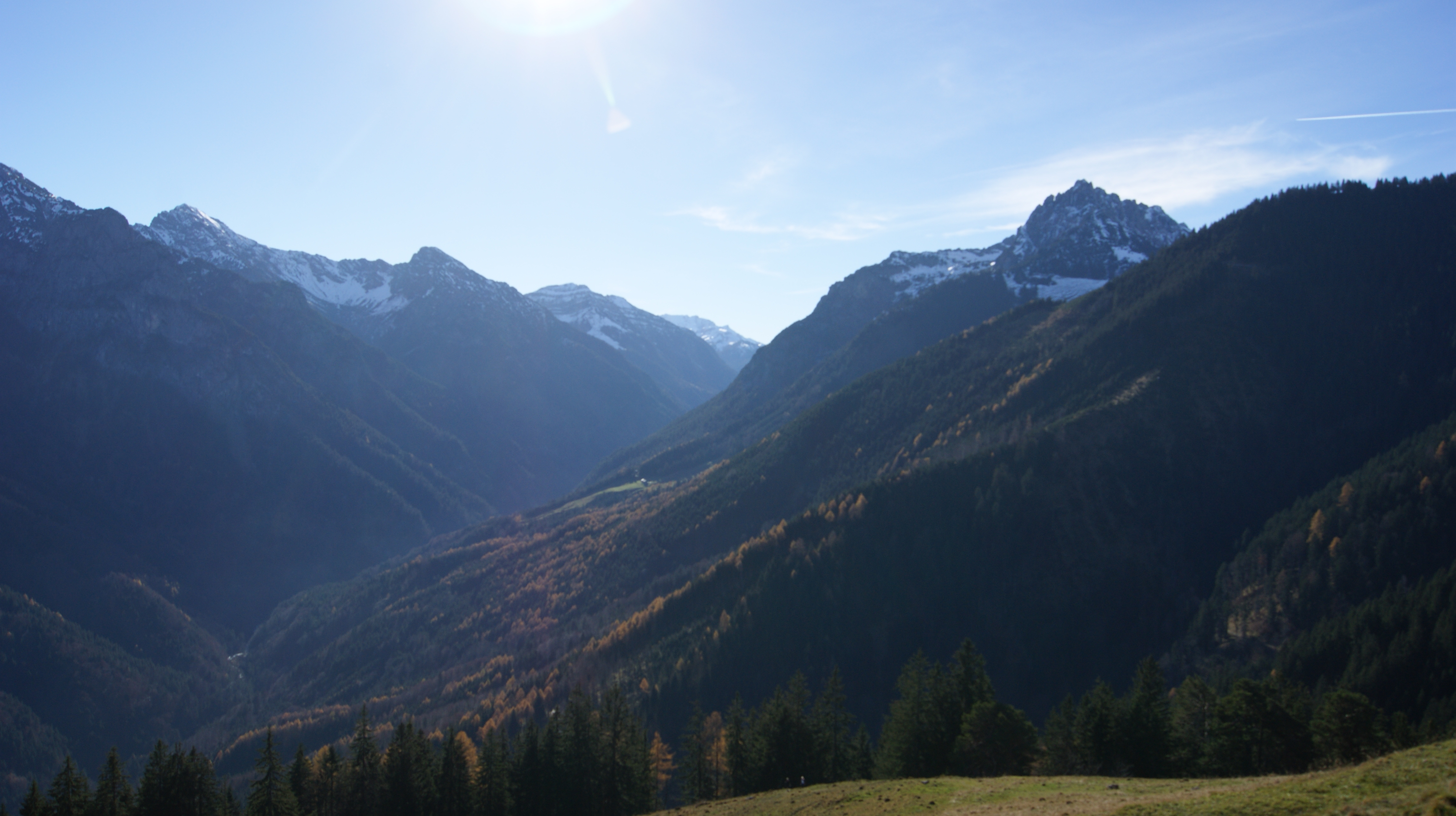 View from the Amerlugalpe (Frastanz), above the Feldkircher-Hut, to the Samina valley to the Border of the Principality of Liechtenstein.